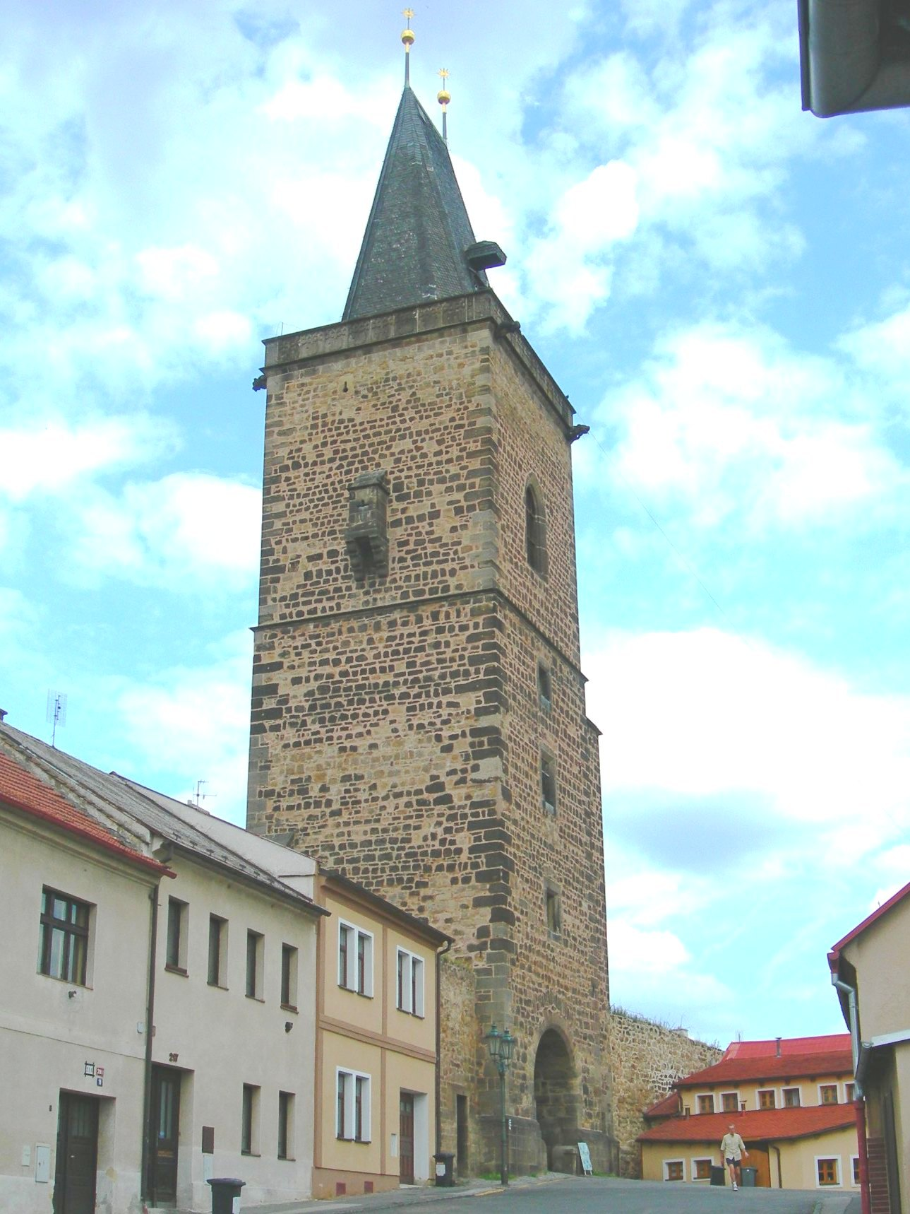 High Gate in Rakovník, Czech Republic